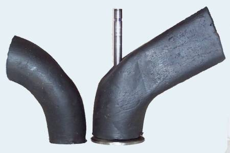 I created this for the cylinder head porting article